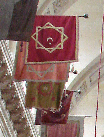 Moroccan flags at the Invalides, Paris, captured by France 1844.